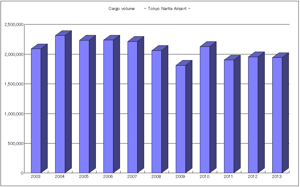 Cargo volume of Tokyo Narita Airport.